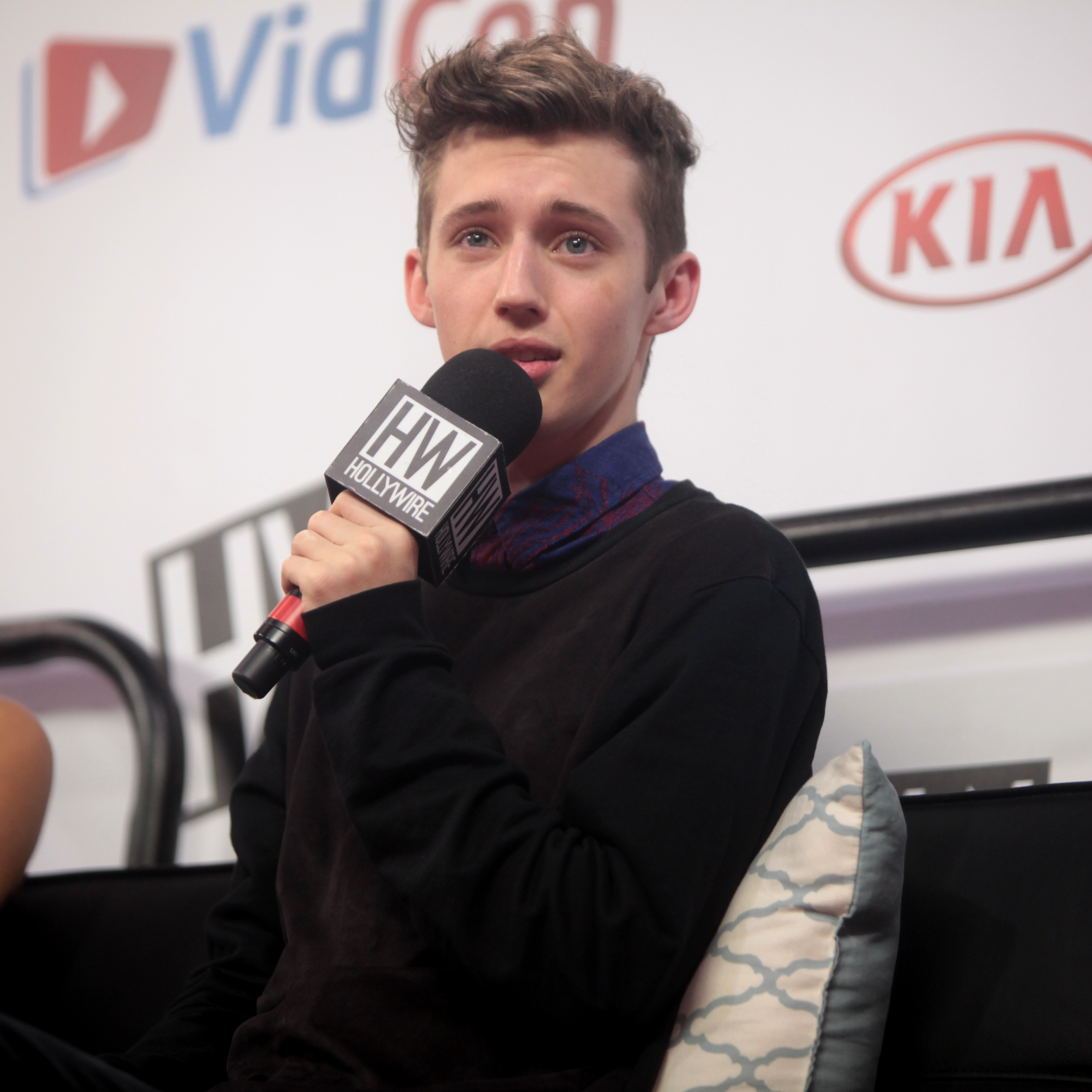 Troye Sivan speaking at the 2014 VidCon at the Anaheim Convention Center in Anaheim, California.